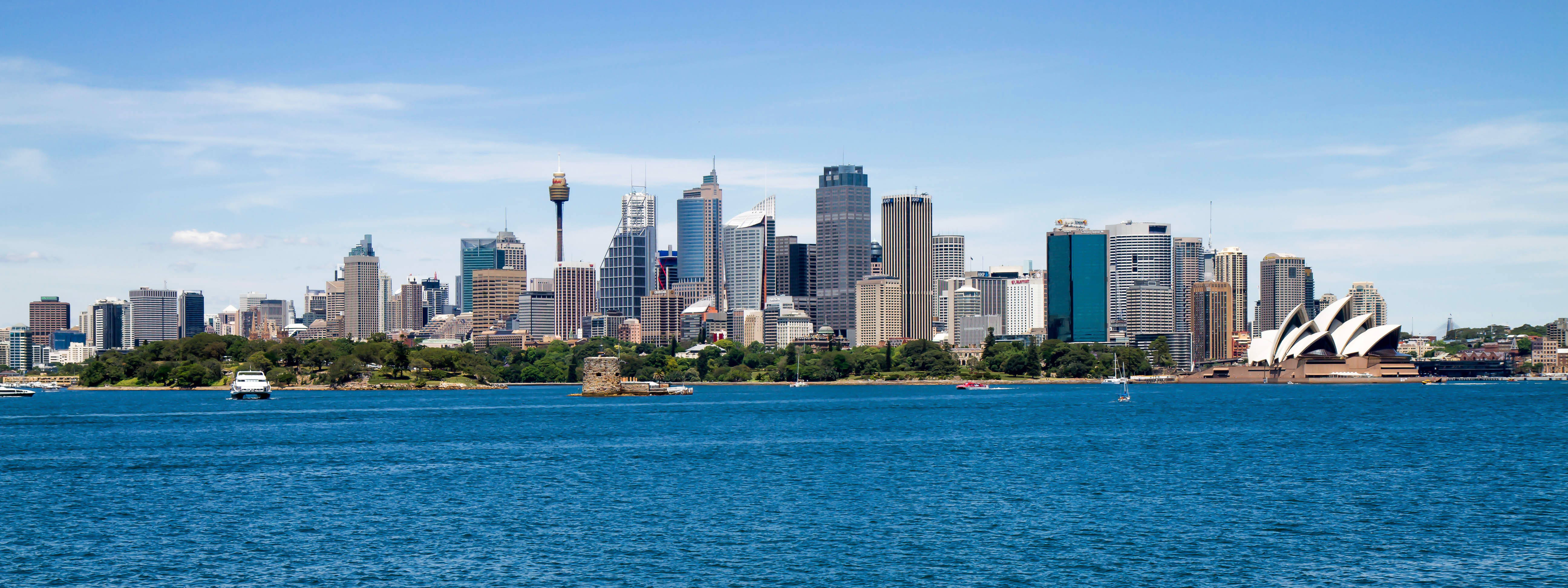 Downtown Sydney